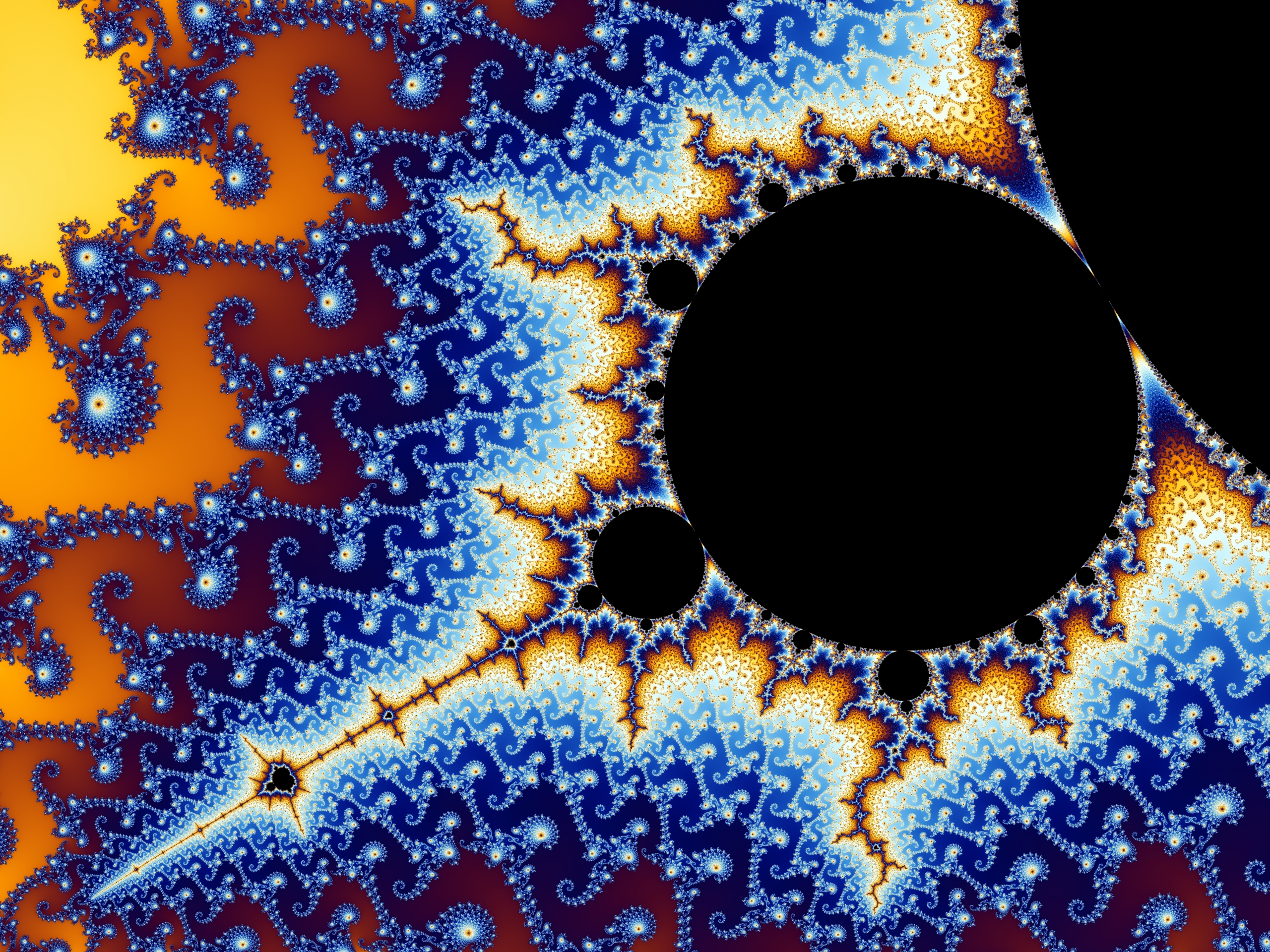 Partial view of the Mandelbrot set. Step 8 of a zoom sequence: "Antenna" of the satellite. Several satellites of second order can be recognized. Coordinates of the center: Re(c) = -.743,644,786,0, Im(c) = .131,825,253,6 Horizontal diameter of the image: .000,002,933,6 Magnification relative to the initial image: 1,048,800 Created by Wolfgang Beyer with the program Ultra Fractal 3. Uploaded by the creator.